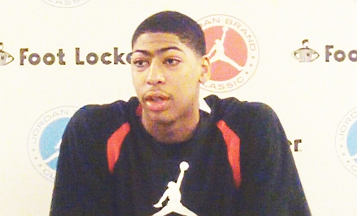 Anthony Davis at the Jordan Brand Classic